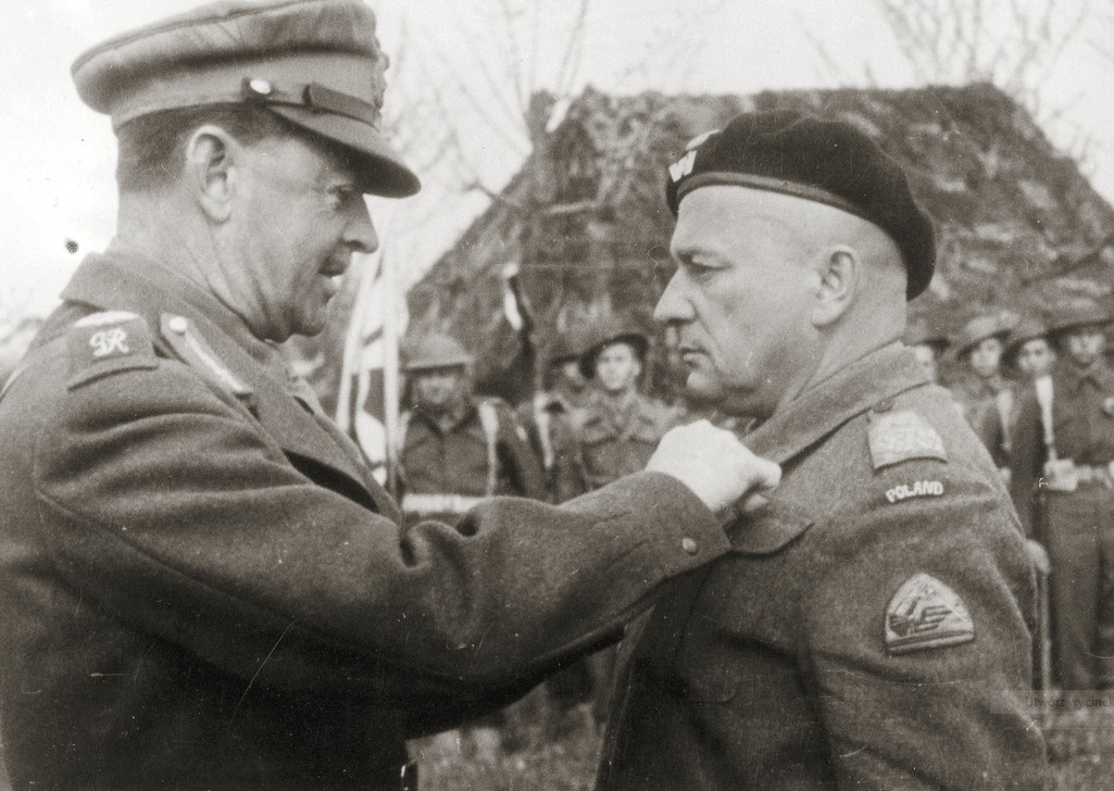 Gen. Harold Alexander and Gen. Bronisław Rakowski (1895-1950) during Italian Campaign 1944